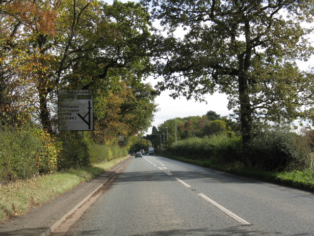 A50 Approaching High Legh